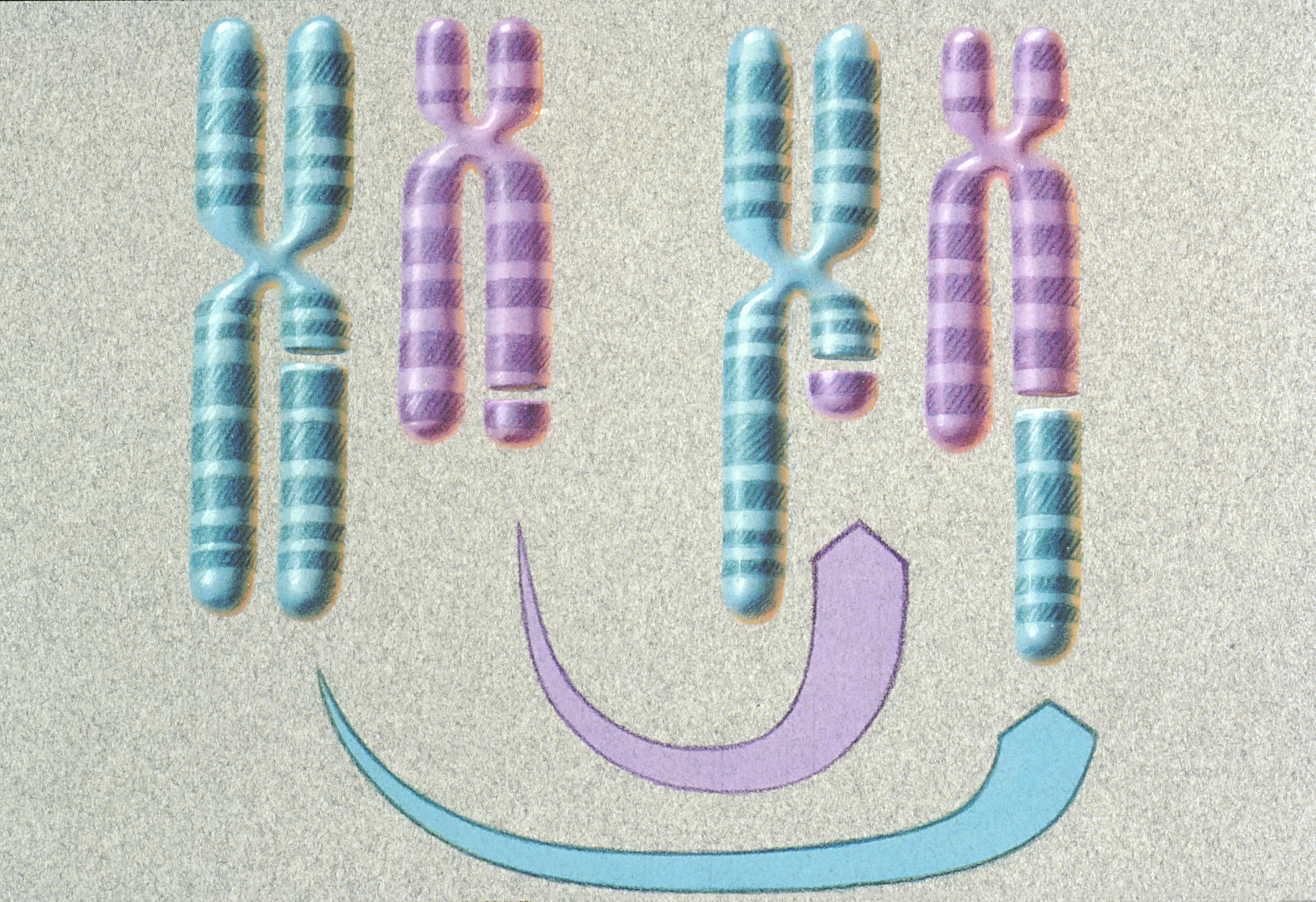 Title Translocation of Chromosomes (Close-up) Illustration Description An illustration of the translocation of chromosomes, a mechanism that causes some cancers. Topics/Categories Historical, Graphics Type Color, Illustration Source National Cancer Institute